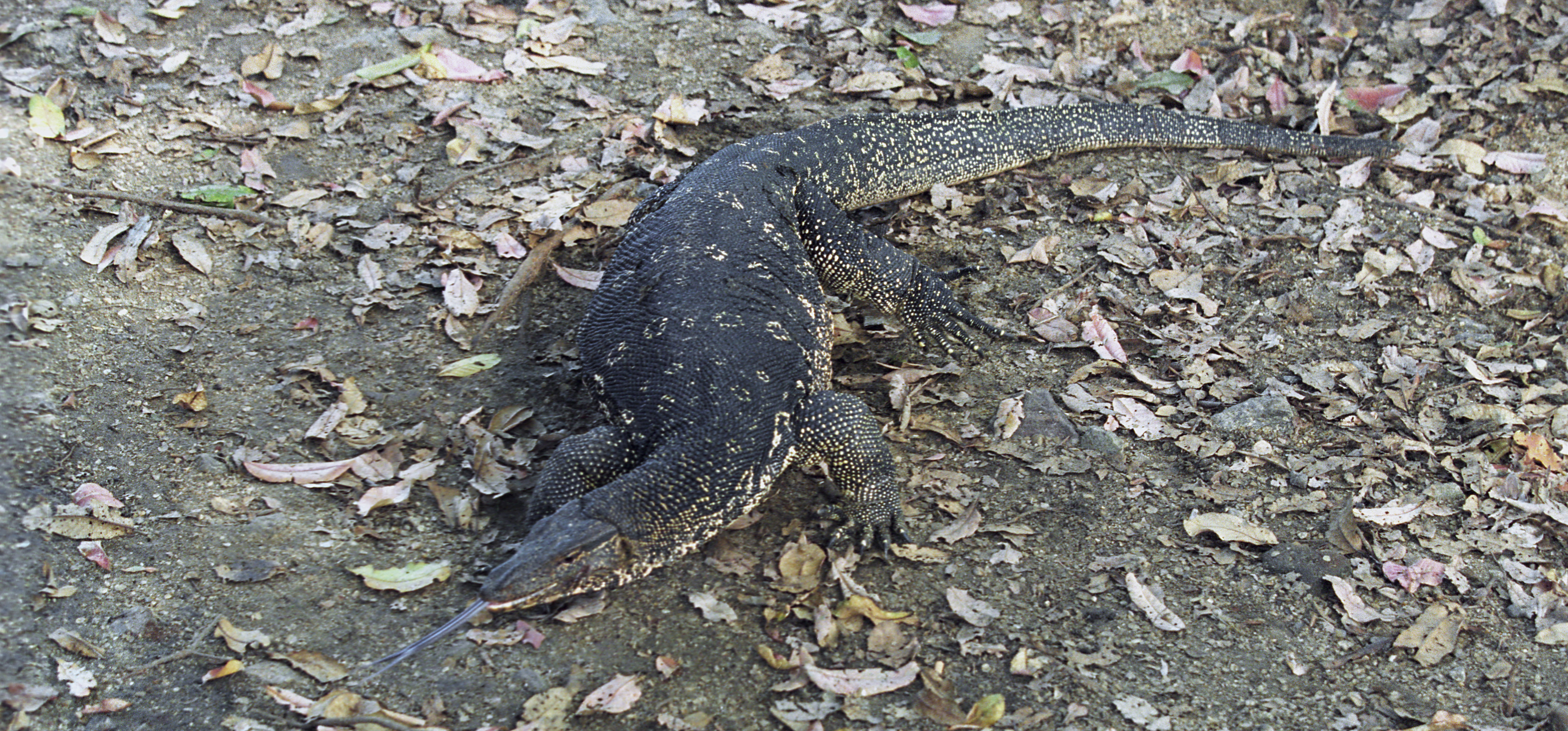 Water monitor, Sri Lanka